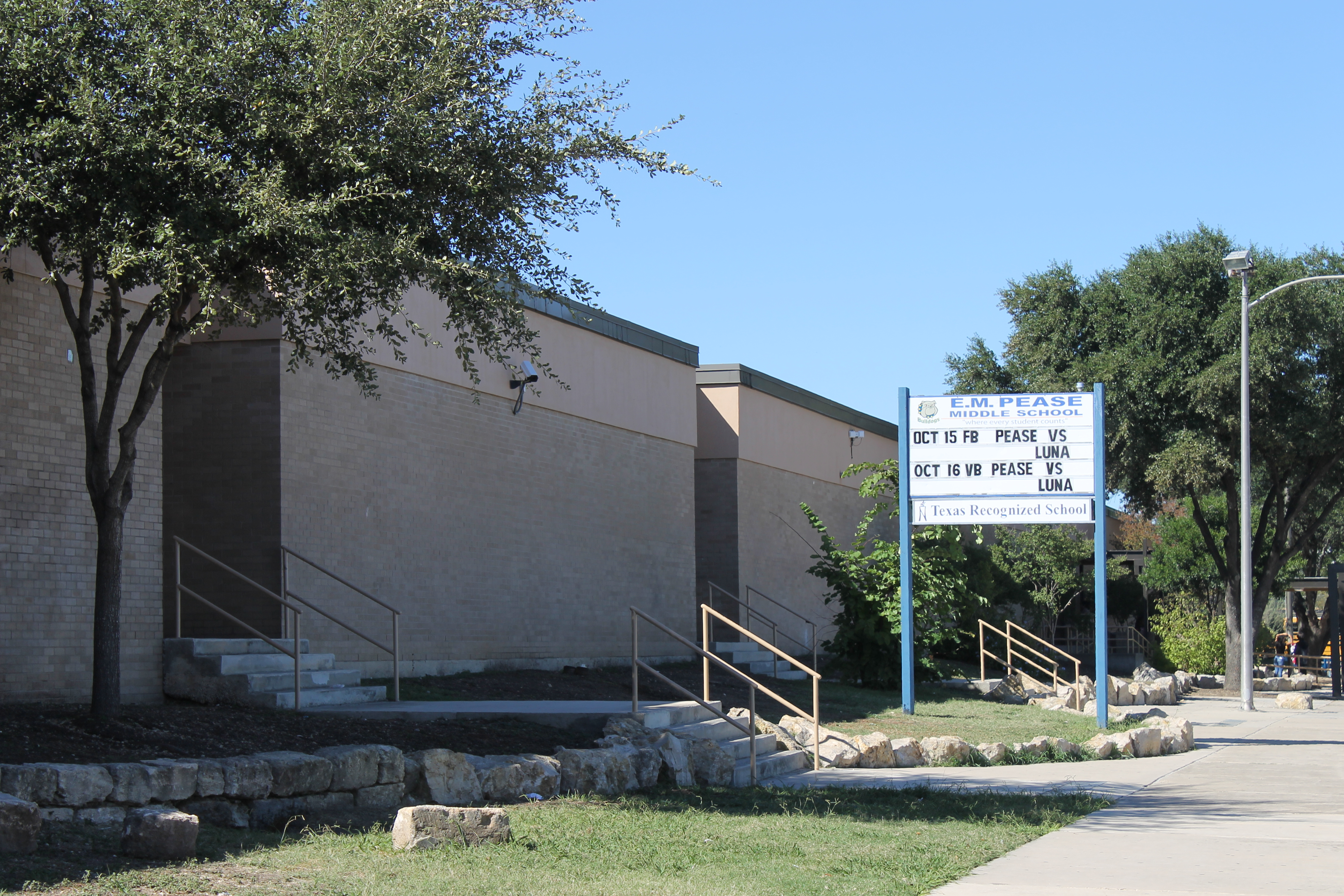 I took photo of E. M. Pease Middle School in San Antonio.